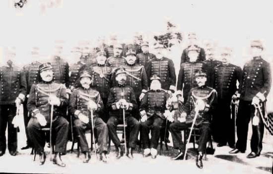 Brazilian Guarda Nacional (National Guard) in Santos ca. 1900.